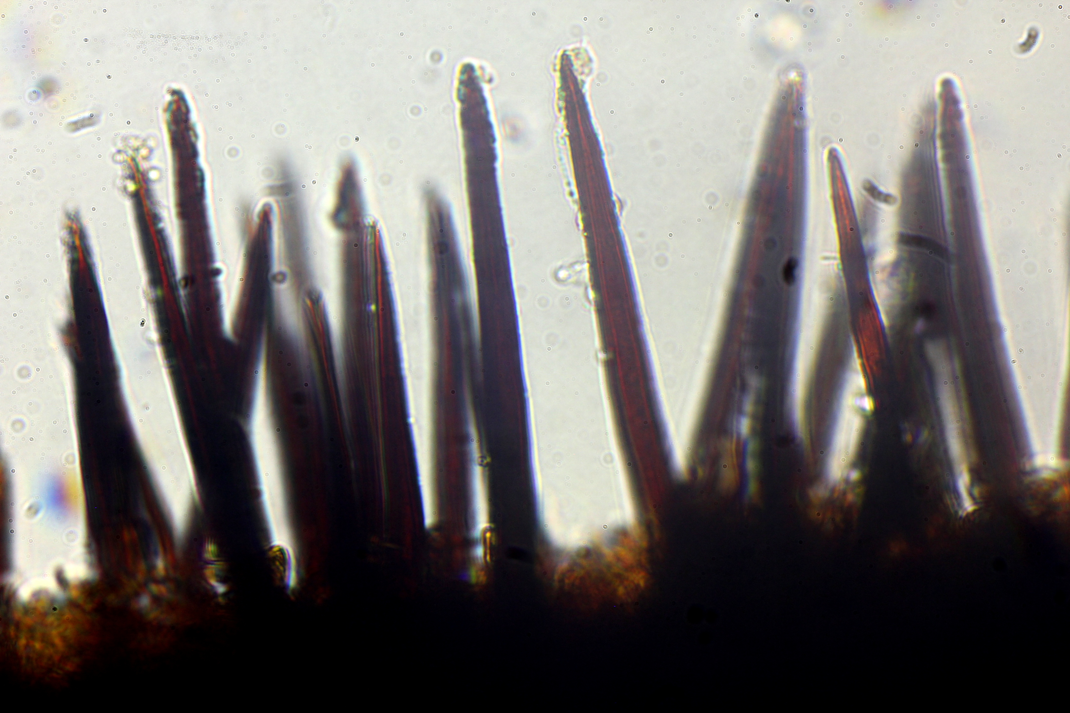 Hymenochaete damicornis (Link) Lév. Image location: Cortadura, Veracruz, Mexico Growing on the ground under mixed hardwoods. A spike from the hymenium measured 150 × 18. Spores inamyloid. They appear smooth in melzers and very slightly dimpled or spotted in KOH. Clamp connections absent in the pileipellis. Herbarium specimen in the “Cortadura 2012” bag and in San Francisco. Probably the same species as observation 79233 and observation 819156. Spore measurements: 5.7 [6.1 ; 6.4] 6.8 × 4.3 [4.6 ; 4.8] 5.2 µm Q = 1.2 [1.3 ; 1.4] 1.5 ; N = 22 ; C = 95% Me = 6.3 × 4.7 µm ; Qe = 1.3 6.13 4.75 6.29 4.96 6.56 4.74 5.92 4.75 6.42 4.79 6.42 4.88 6.41 4.83 5.84 4.69 5.96 4.81 6.20 4.68 6.12 4.71 6.17 4.65 6.87 5.26 6.29 4.52 6.36 4.82 6.46 4.70 6.05 4.39 6.08 4.77 6.10 4.17 5.90 4.22 6.45 4.69 6.88 4.75 Recognized by sight Spines with encrustations 400x For more information about this, see the observation page at Mushroom Observer.